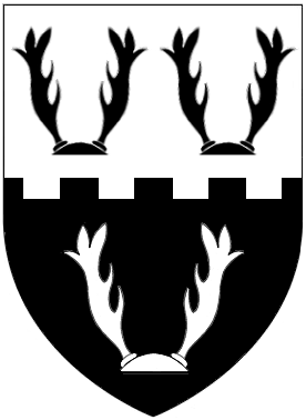 Arms of Buck family of Daddon House / Moreton House, Bideford, Devon: Per fess embattled argent and sable, three buck's attires each fixed to the scalp counterchanged. In 2014 these arms are quartered by the Stucley Baronets of Hartland Abbey and Affeton, Devon.